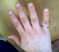 Picture uploader took of my hand while wearing thier Order of the Engineer ring.